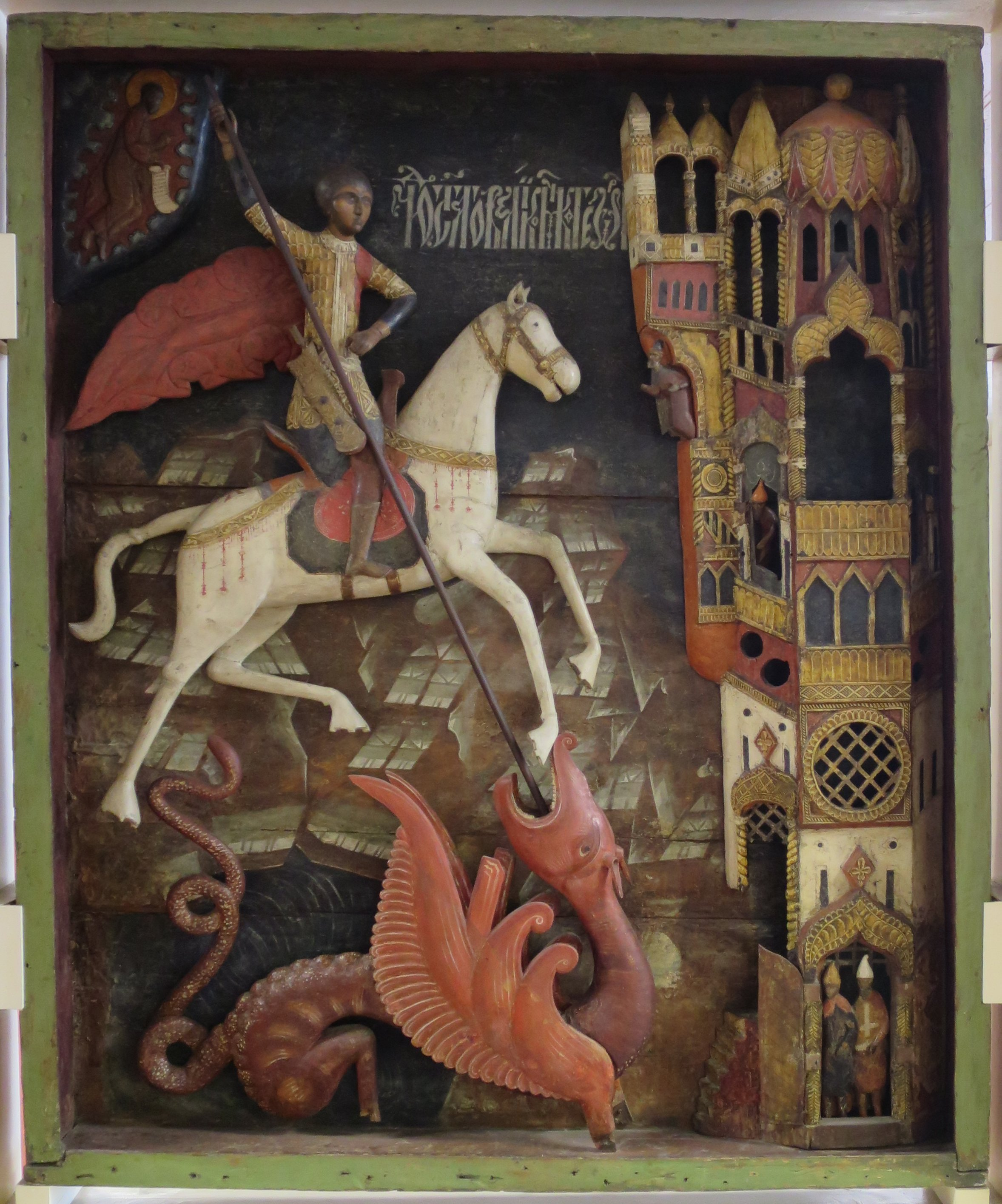 Russian icon, Miracle of St. George and the Dragon (in case), 17th century, carved and painted wood, Arkhangelsk Regional Museum of Fine Arts